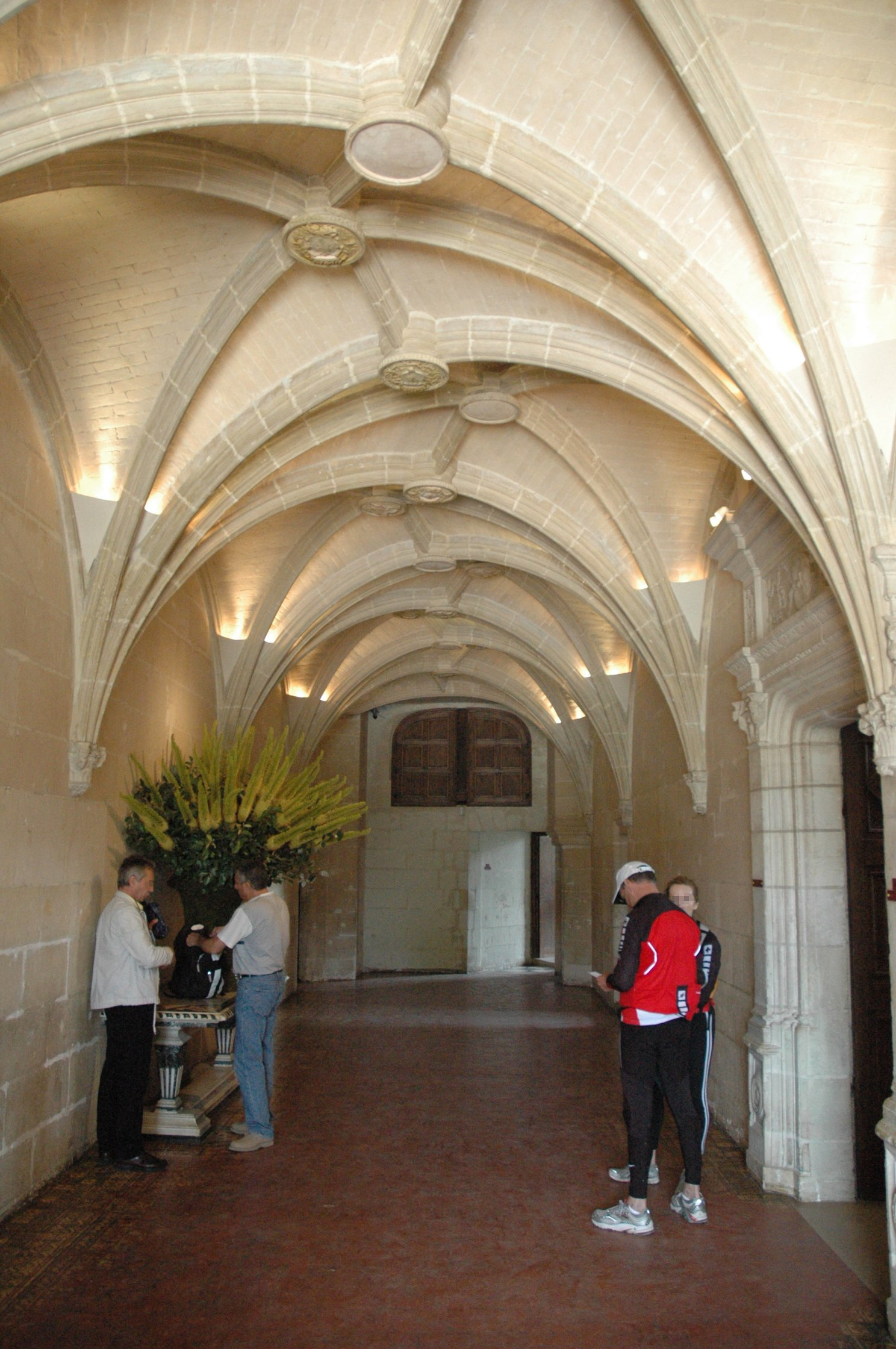 Vestibule of the ground floor of the château de Chenonceau